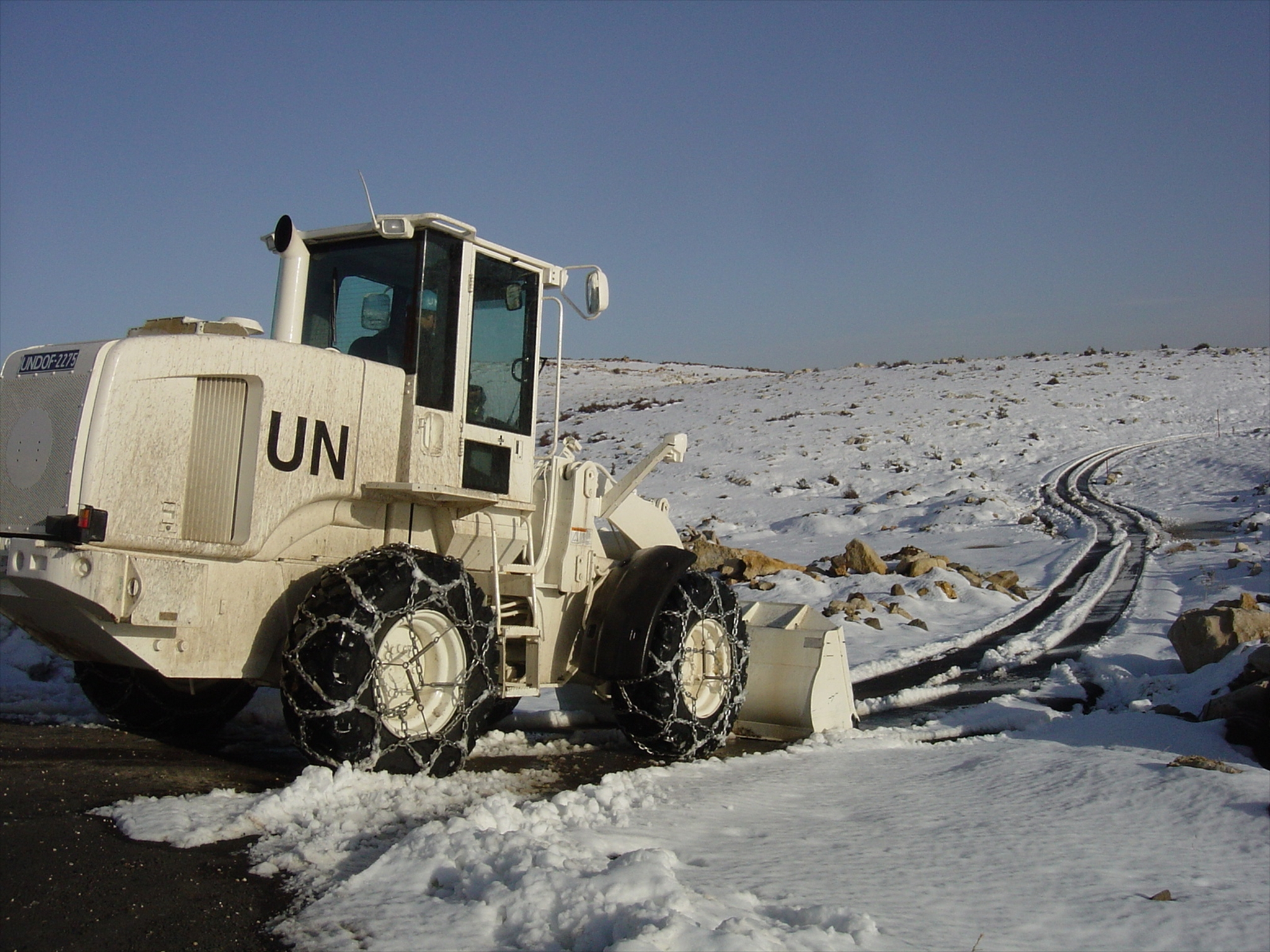 Title UNDOFゴラン高原・ヘルモン山の除雪をするUNDOFゴラン高原派遣輸送隊_R.JPG Album 国際平和協力活動等（及び防衛協力等） 国連兵力引き離し監視隊